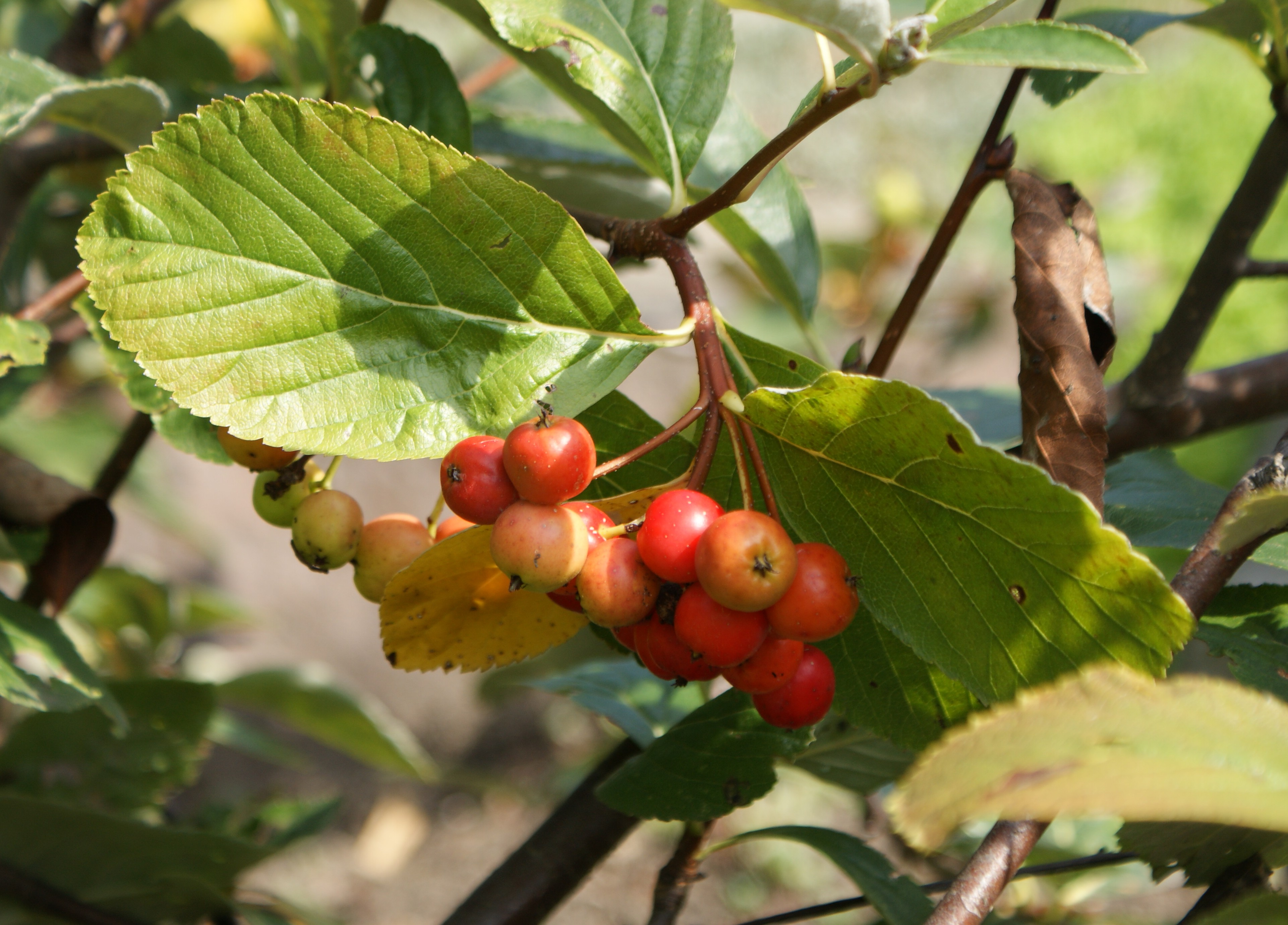 Sorbus sudetica (= Sorbus chamaemespilus var. sudetica (Tausch) Wenz.), Botanical Garden in Wroclaw (Poland)